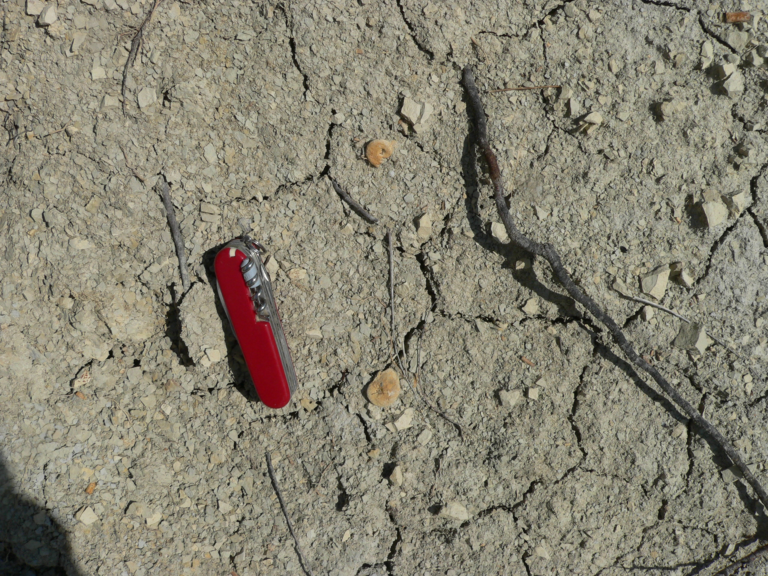 Blue marl, near Col St. Jean, with fossils (+Fotomodell Yassi)